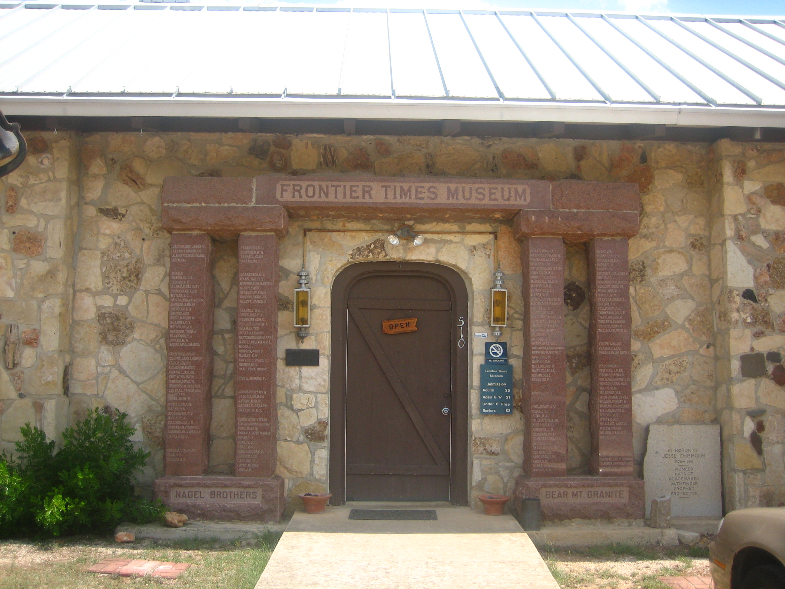 I took photo on July 19, 2008.Billy Hathorn (talk) 17:41, 3 February 2009 (UTC)